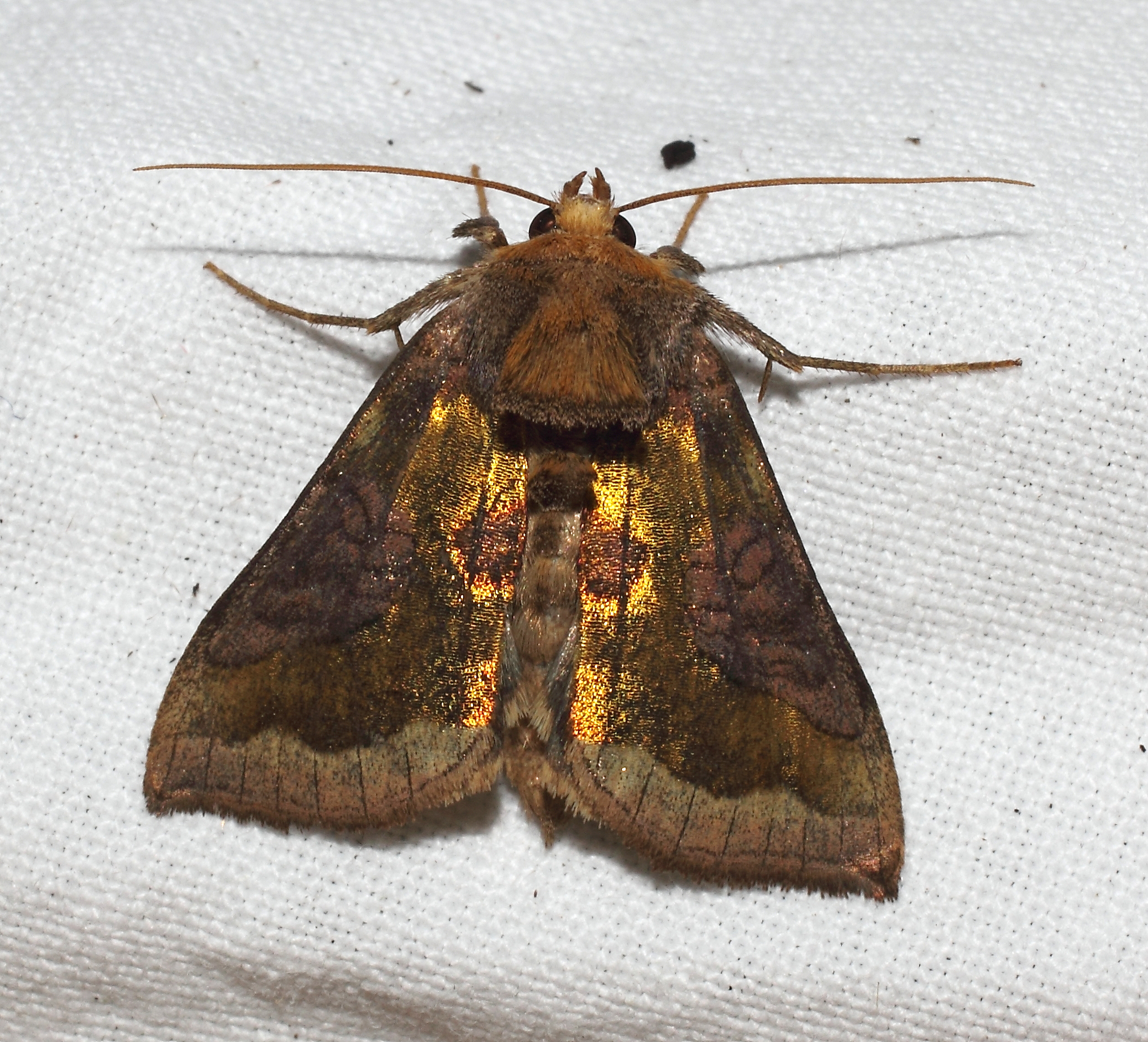 Burnished Brass (Diachrysia chrysitis) complex, picture taken in Styria